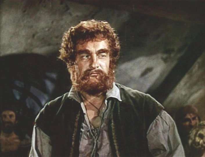 George Sanders in a screenshot from the trailer for the film The Black Swan.